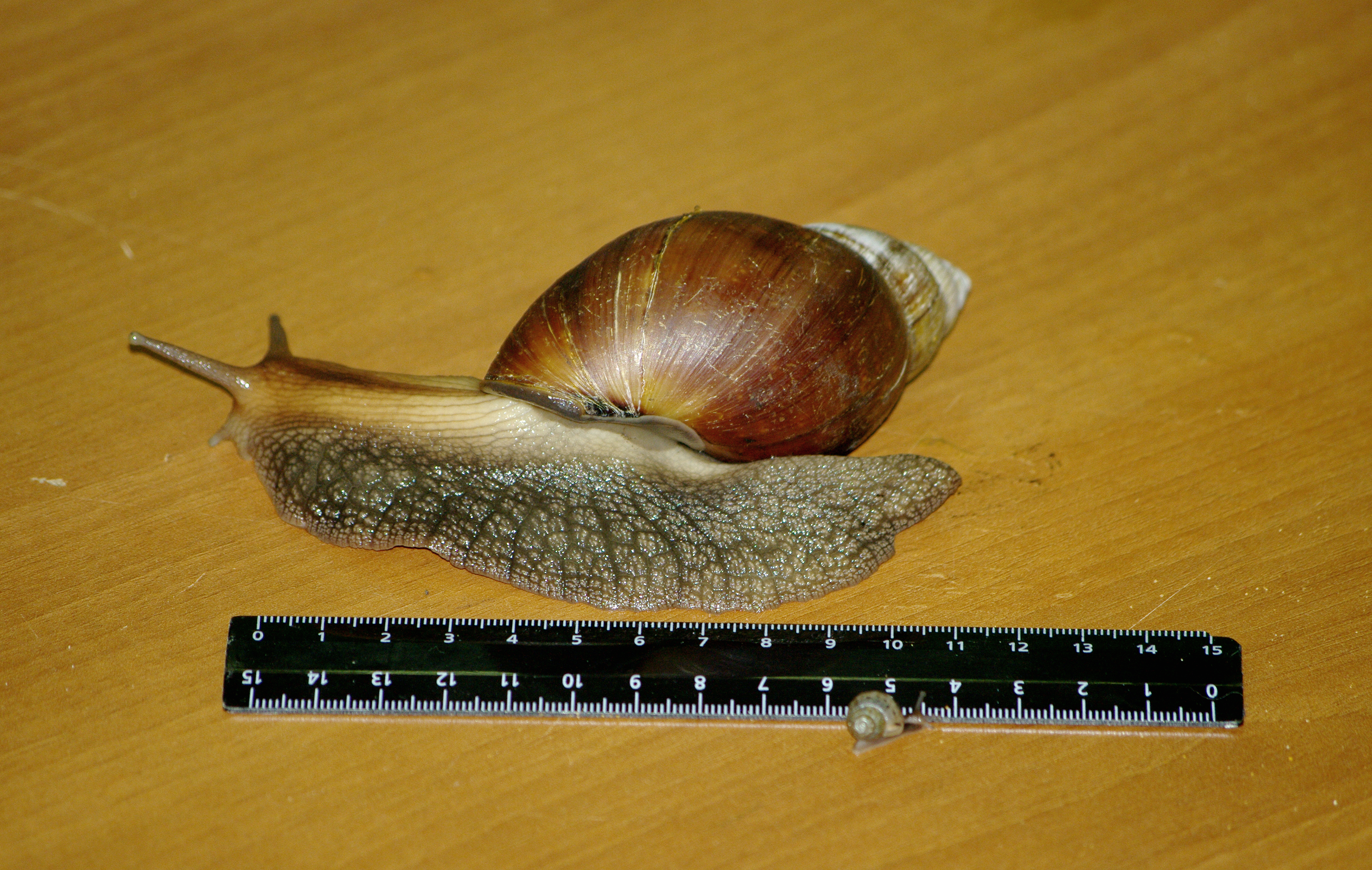 Two achatinas (young and adult)